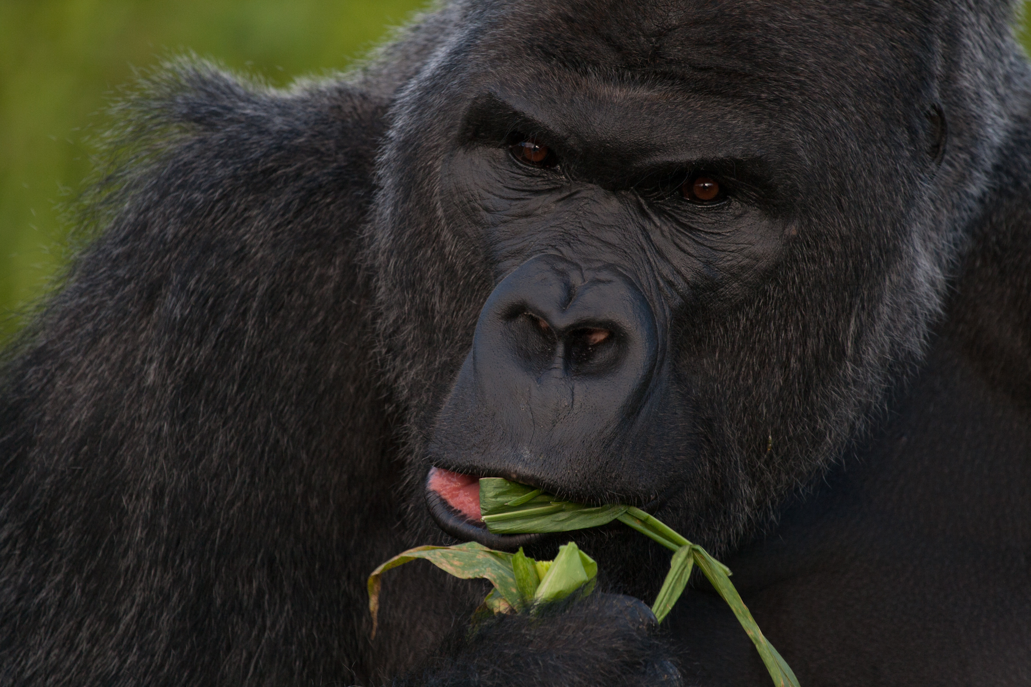 Jock, (born May 1985), a western lowland gorilla (Gorilla gorilla gorilla) in Bristol Zoo